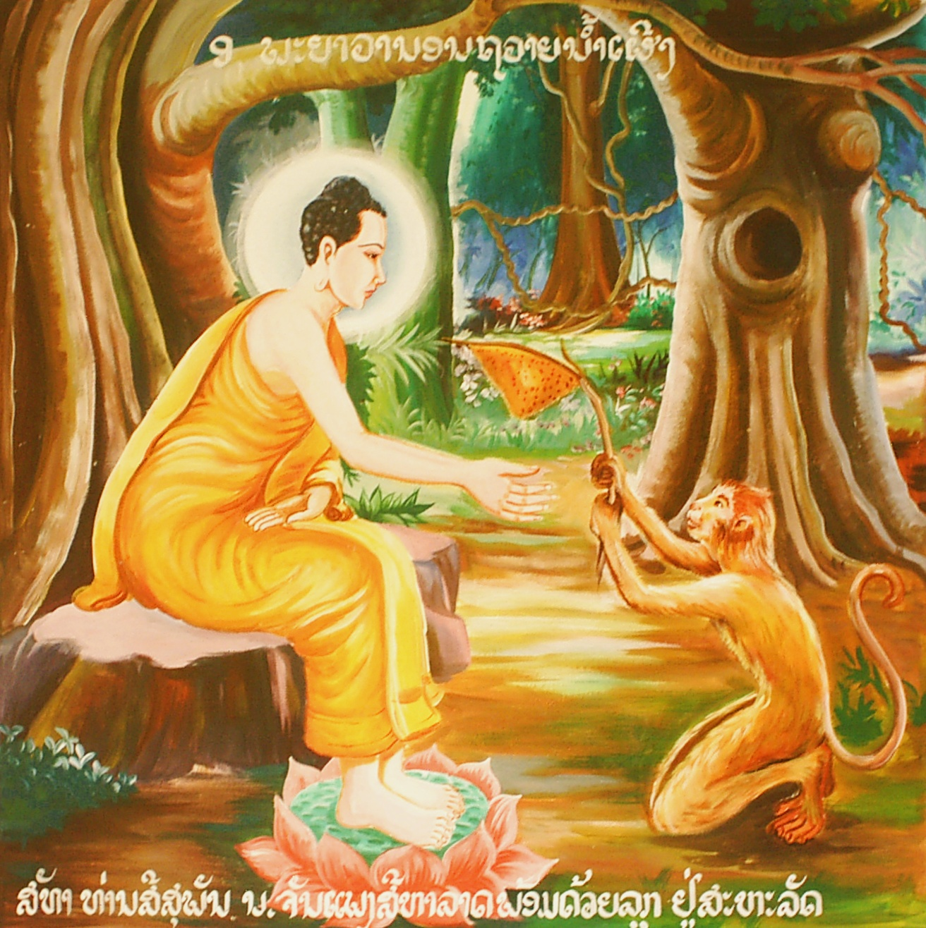 This painting depicts the Buddha while living in the deep forest, where no people were around who could support him by offering food. The monkey then gave the Buddha some honey. Other animal also gave him various foodstuffs.